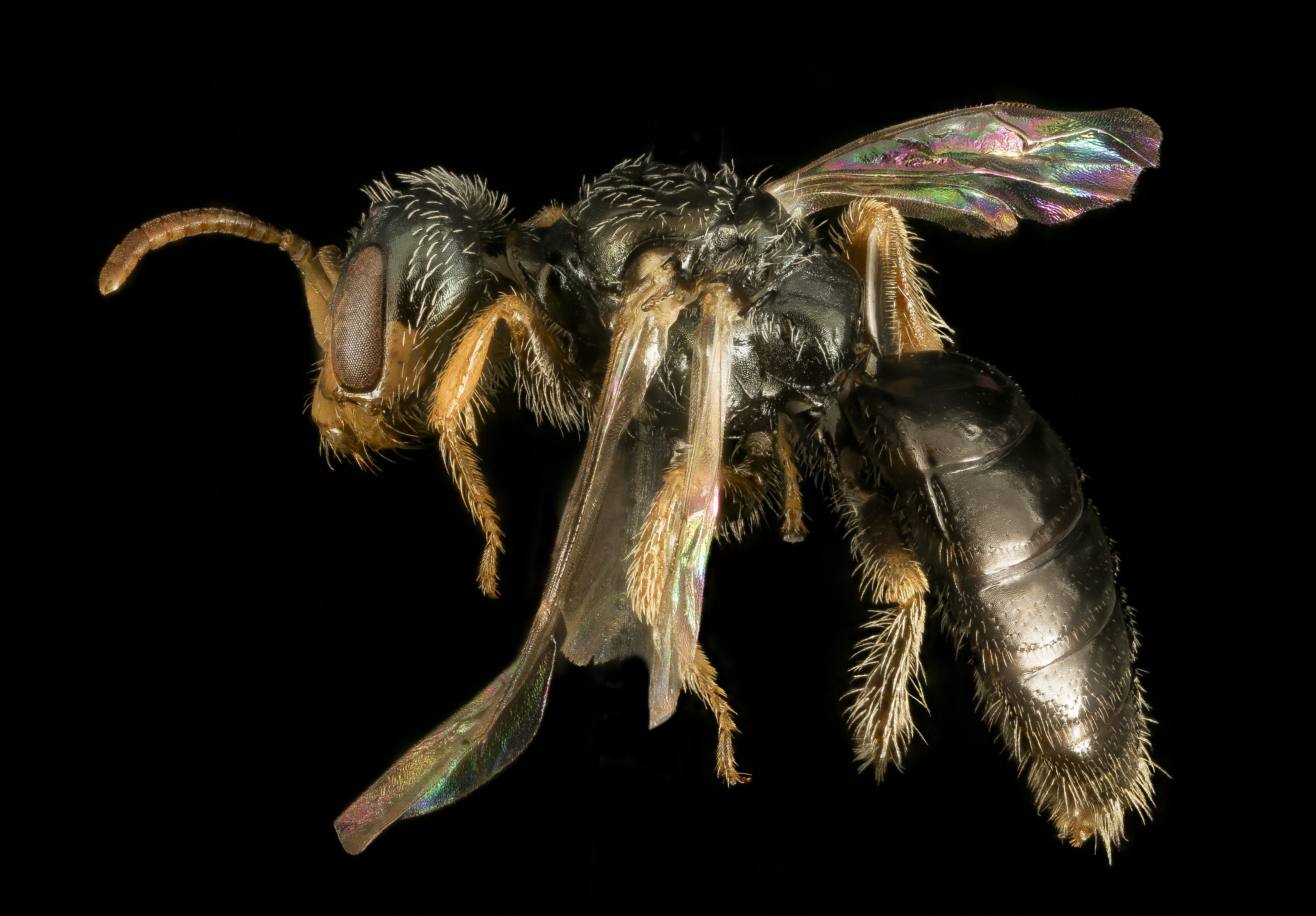 Another Reason that Weeds Have Value: In this case the weed is Physalis, tomitillos or ground cherries. Native to North America they are usually considered weeds unless they are one of the edible varieties, yet, they host several native bees who can only live on Physalis pollen, moving this weed in my mind a bit more to the good side of the ledger book. A deeper look at the plant finds other insects also only find their homes in some life stage of this genus. This wittle bee was on collected in the prairies of western Illinois by Jared Ruholl in his collaborative study of what amounts to prairie landscape residues. Photograph by Wayne Boo. 18:40, 9 August 2015 (UTC)18:40, 9 August 2015 (UTC) 0 18:40, 9 August 2015 (UTC)18:40, 9 August 2015 (UTC) All photographs are public domain, feel free to download and use as you wish. Photography Information: Canon Mark II 5D, Zerene Stacker, Stackshot Sled, 65mm Canon MP-E 1-5X macro lens, Twin Macro Flash in Styrofoam Cooler, F5.0, ISO 100, Shutter Speed 200 Beauty is truth, truth beauty - that is all Ye know on earth and all ye need to know " Ode on a Grecian Urn" John Keats Contact information: Sam Droege 301 497 5840